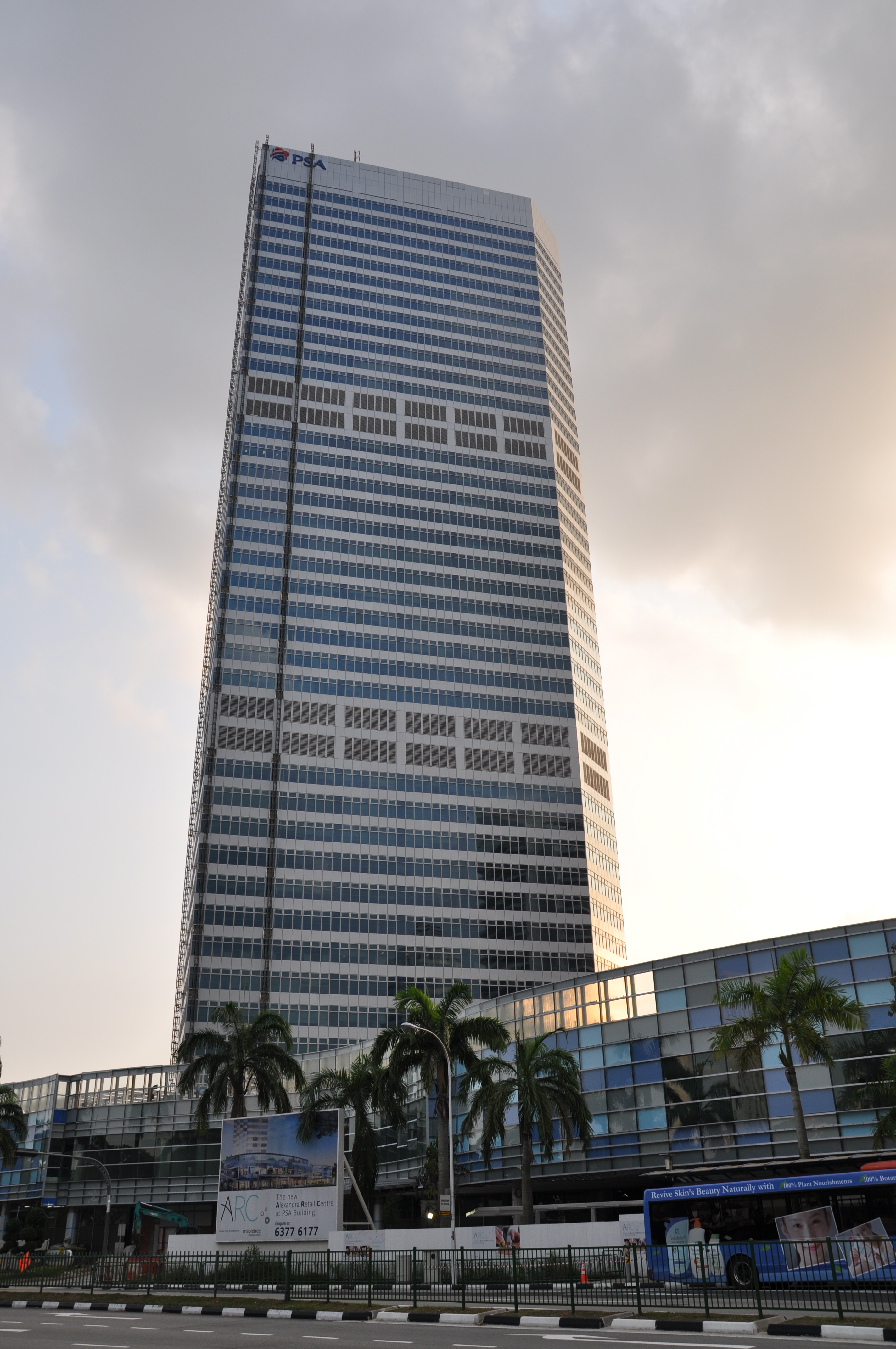 PSA Building at 460 Alexandra Road (near Labrador Park MRT Station), Singapore. It is the headquarters of PSA International, and the Ministry of Transport and the Maritime and Port Authority of Singapore are also located in it.